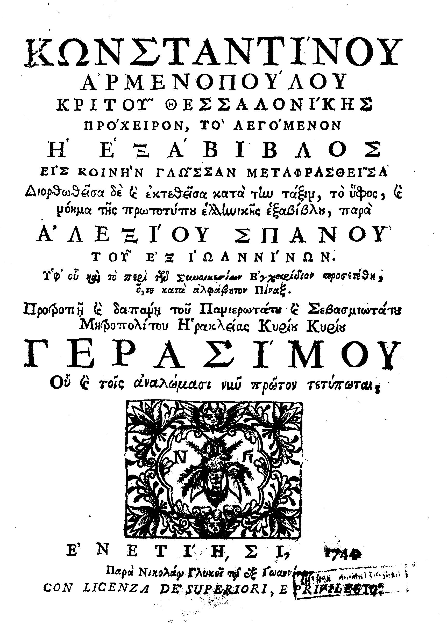 Front page of the Procheiron or Hexabiblos of Constantine Harmenopoulos(1320 - 1380/1385), Venice 1744 edition by Alexios Spanos, first known translation in modern Greek. Hexabiblos was a Byzantine legal treatise of the 14th century, that continued to be widely used in the Balkan lands throughout the later Ottoman Empire's presence. At 1828, it was adopted by the newly founded Greek state as the state's civic code, where it remained so until 1946.